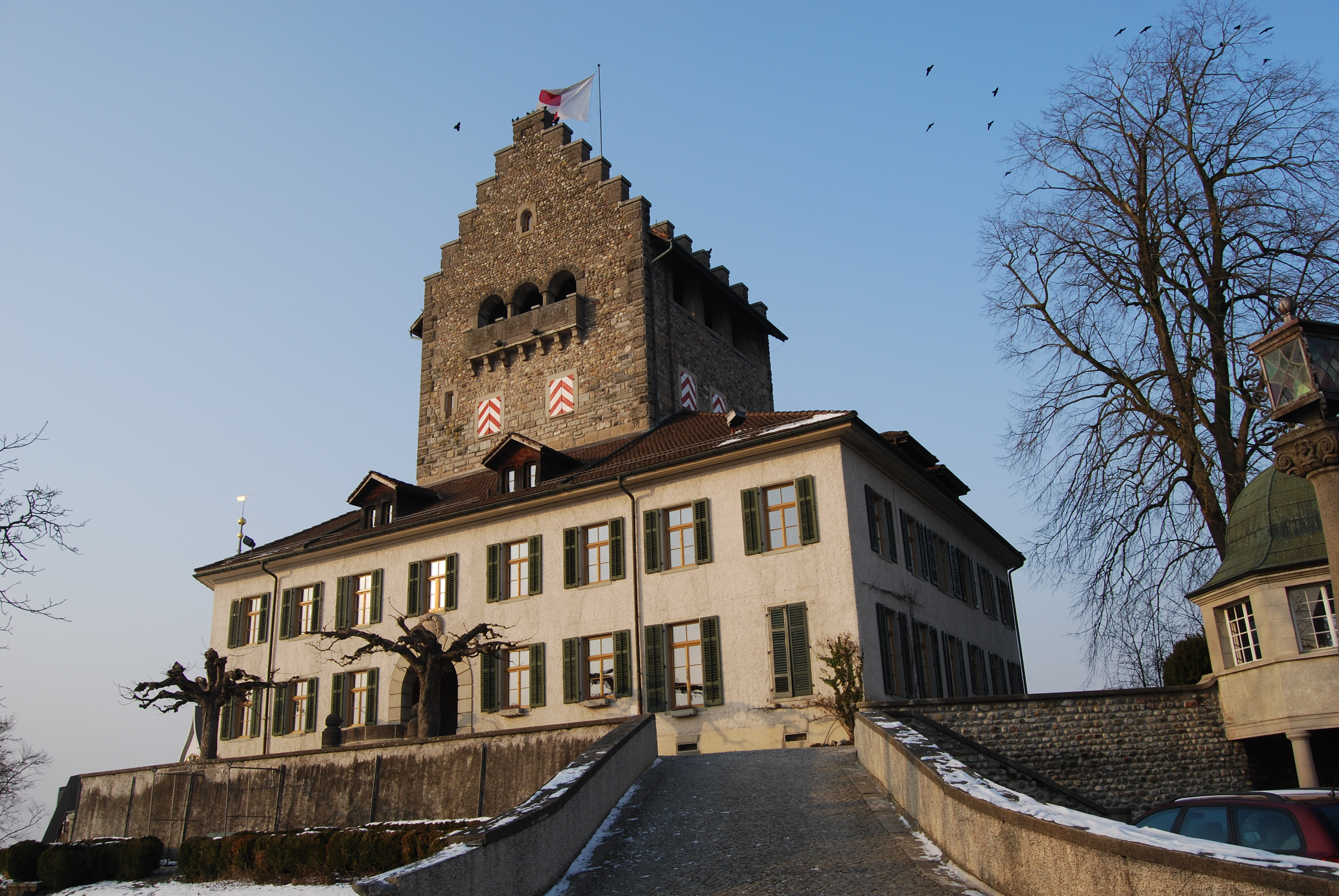 Castle Uster in winter, city of Uster, canton of Zürich, SwitzerlandEsperanto: Kastelo Uster en vintro, urbo Uster, Kantono Zuriko, Svislando